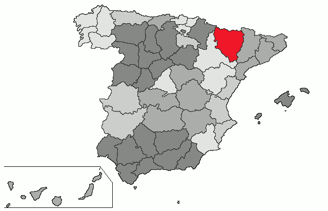 Province of Huesca Creado por CHV, basándose en Image:Provincia Soria.png (esta a su vez basada en Image:ProvPont.jpg de Sobreira).